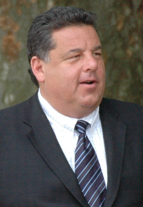 Sopranos star at his daughters graduation at UD - My son was in the same program so kept running across him and family - Very nice guy, took pics with all of the noodniks that wouldn't leave him alone